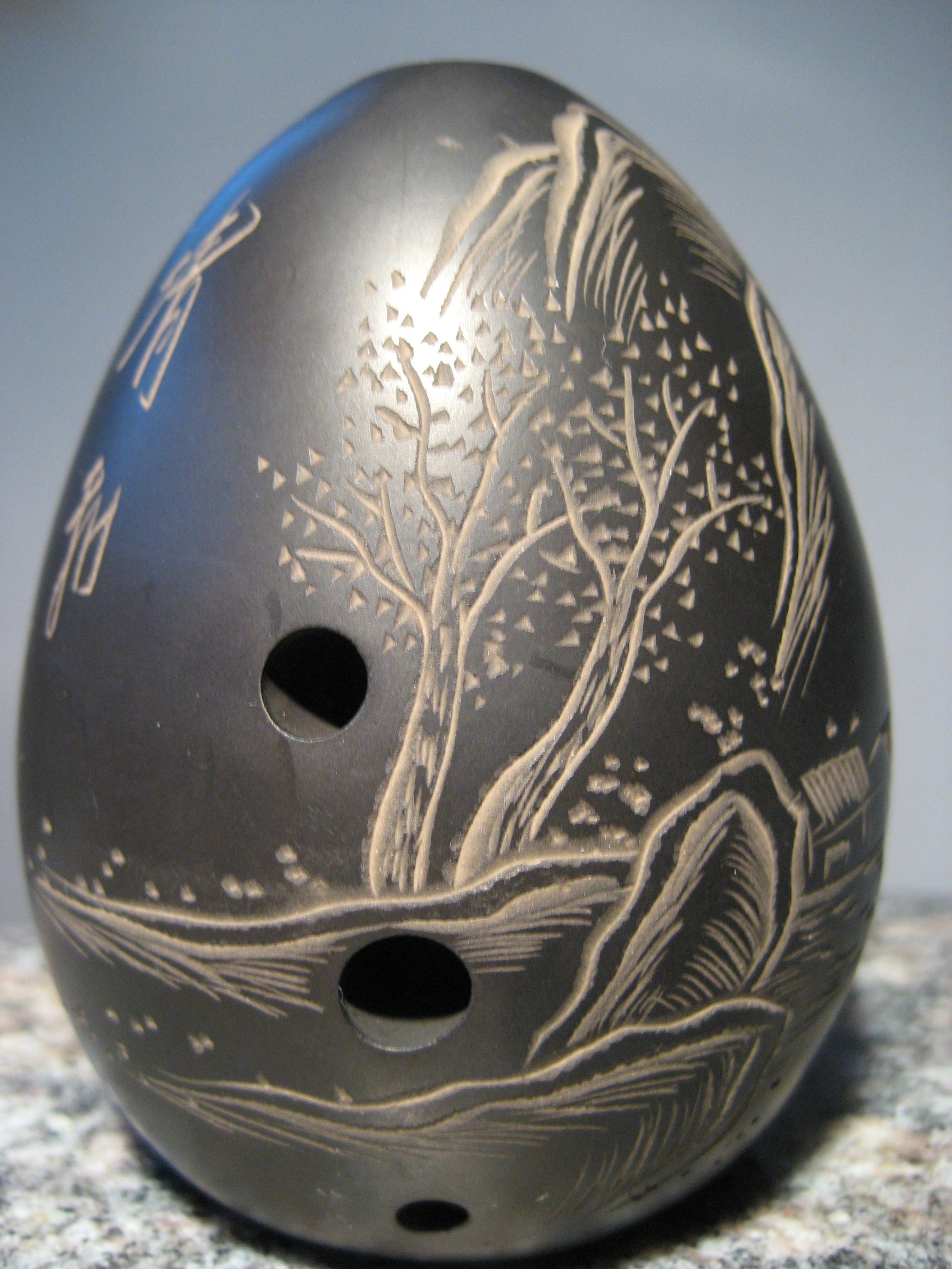 A Gu Xun flute – one of the oldest musical instruments of China